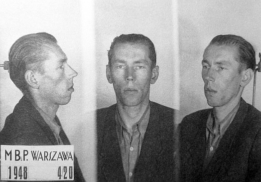 Lucjan Minkiewicz (1918-1951) Lieutnant of Polish Army, commander of the Polish 6th Home Army Brigade.